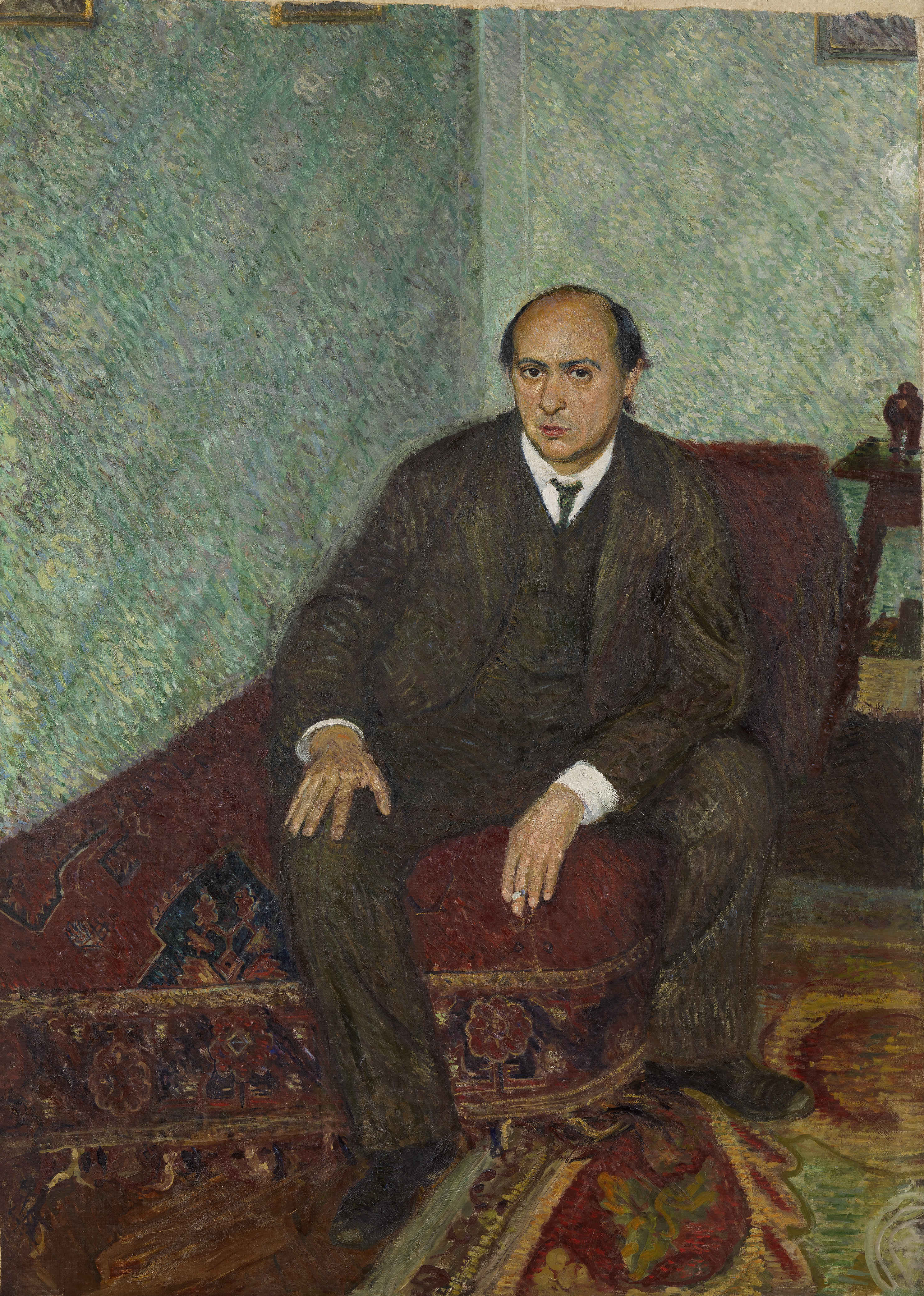 Arnold Schoenberg seated